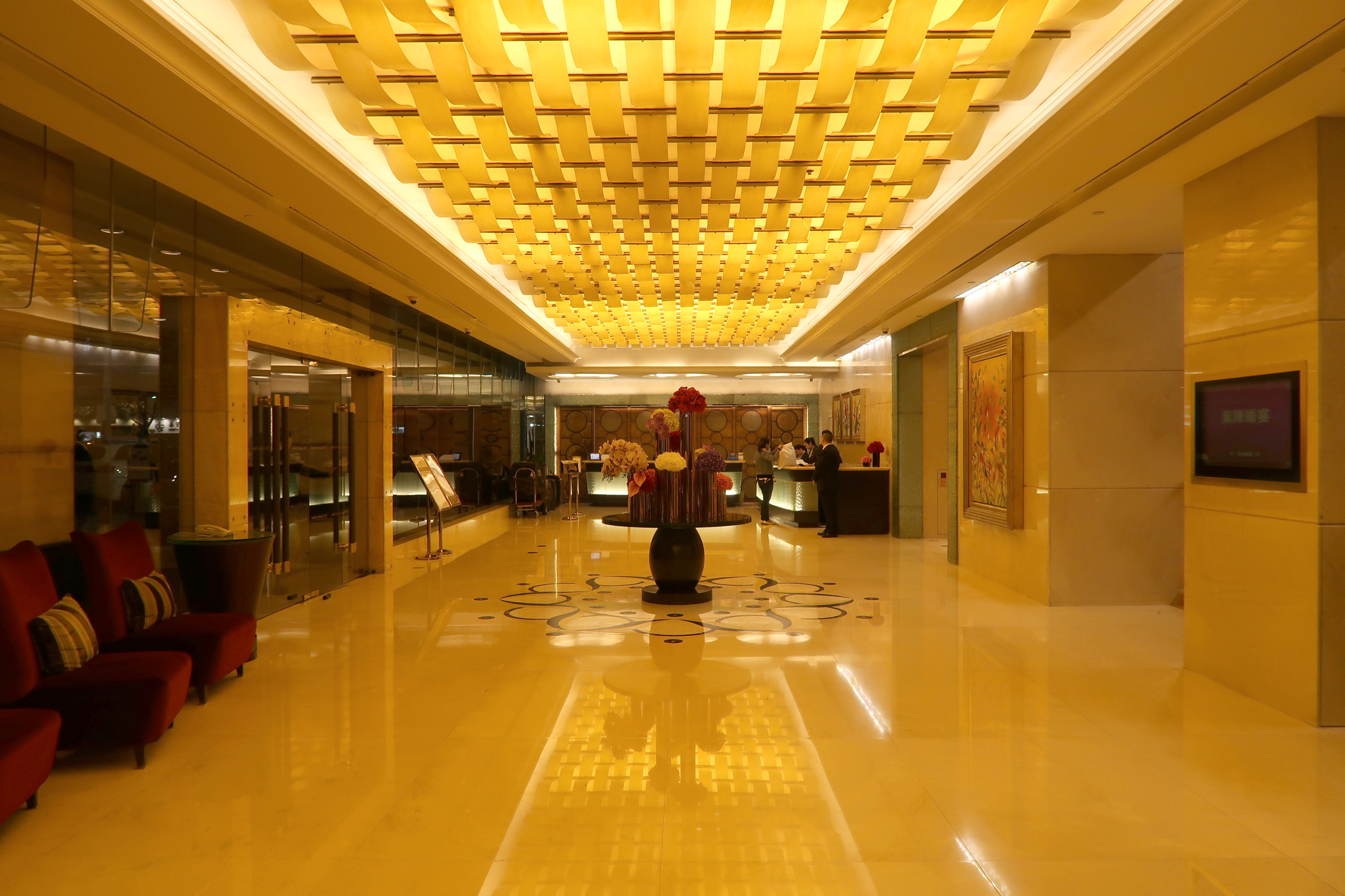 City Garden Hotel lobby